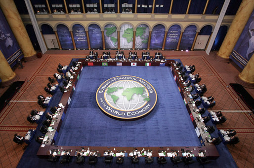 President George W. Bush and the G20 leaders and delegates attend the Summit on Financial Markets and the World Economy Saturday, Nov. 15, 2008, at the National Museum Building in Washington, D.C. White House photo by Joyce N. Boghosian